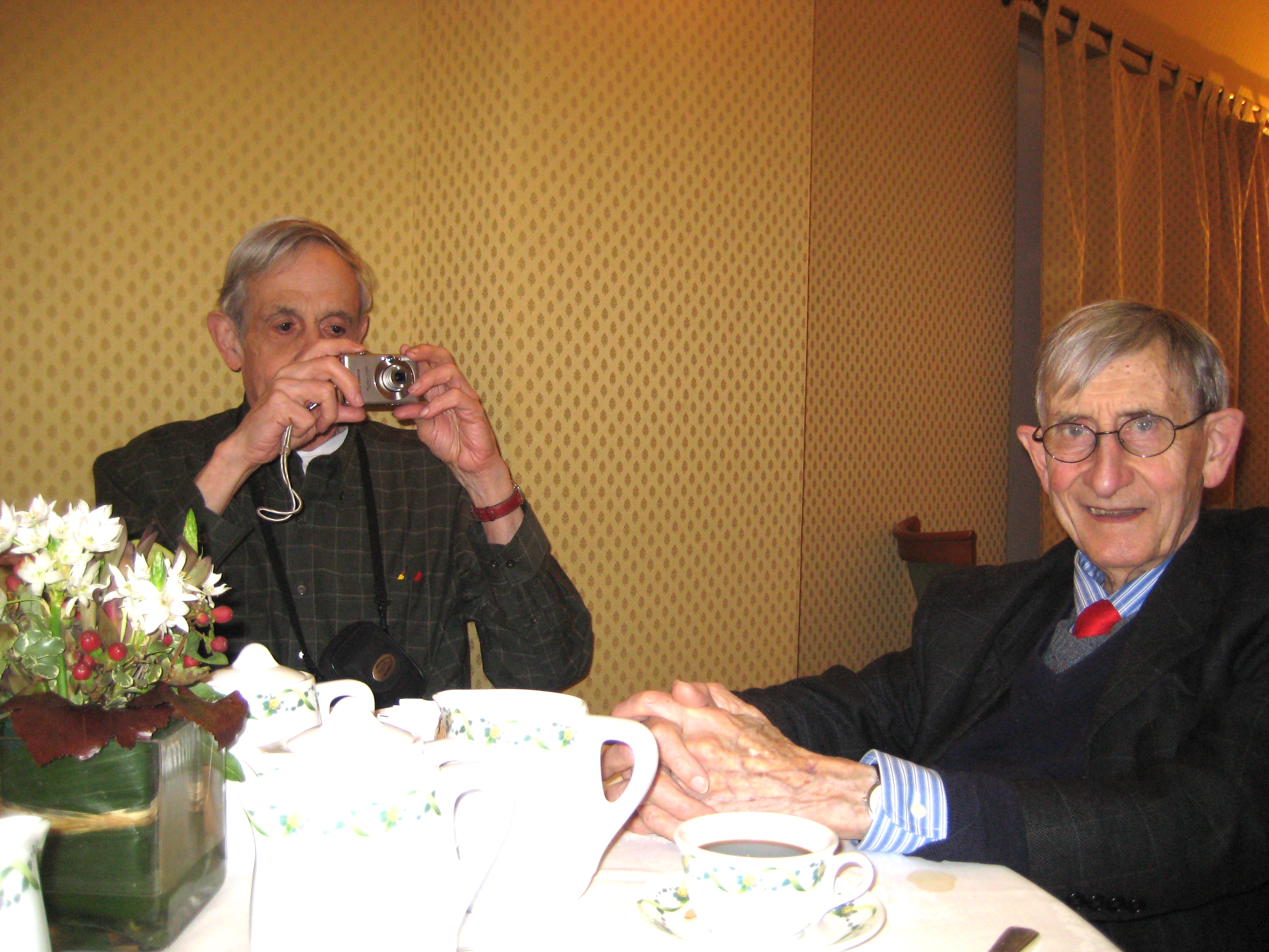 Photo of Freeman Dyson with John Nash in Rome for 2008 Festival della Matematica event